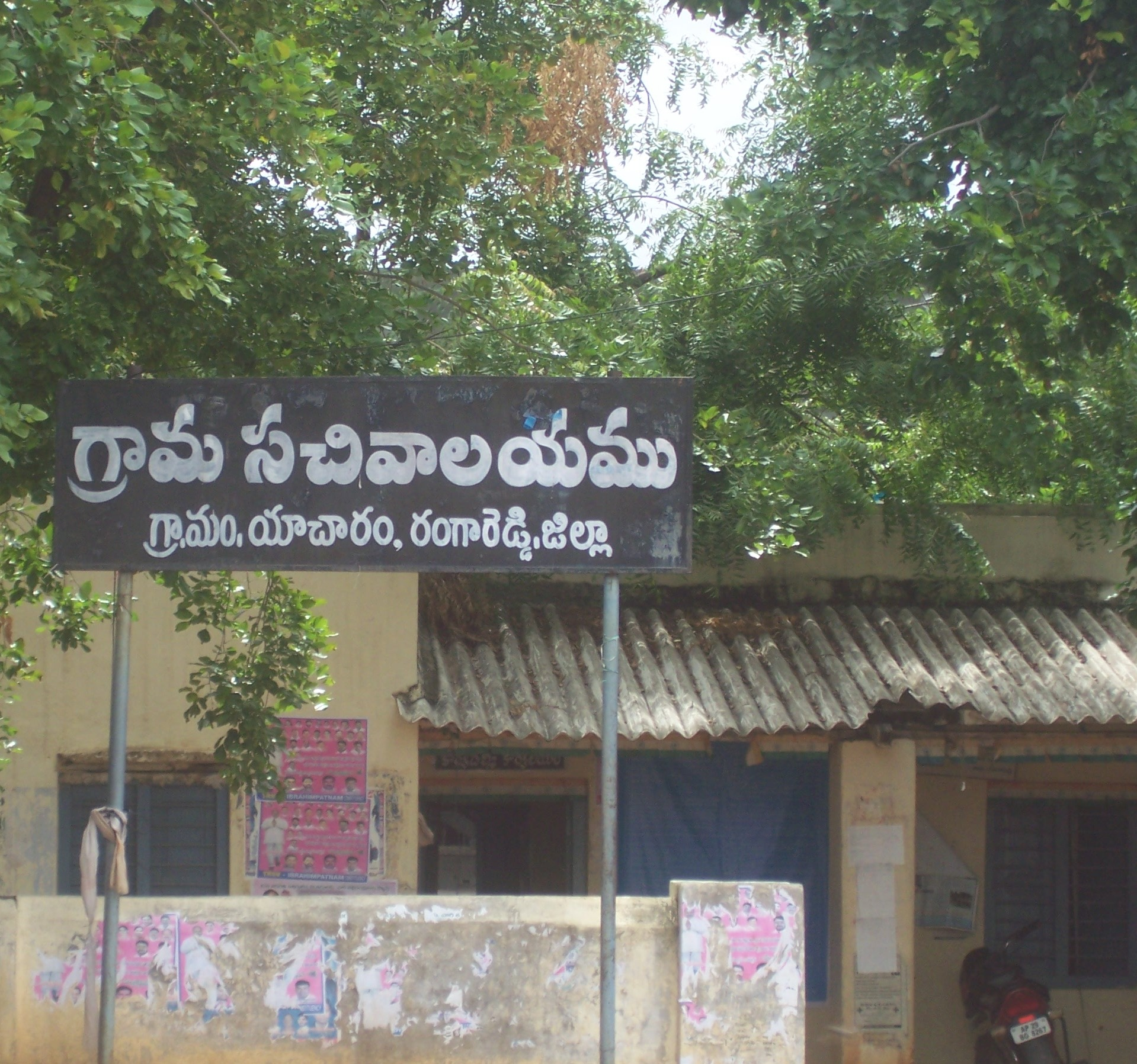 Grama sachivalam, yaacharam.